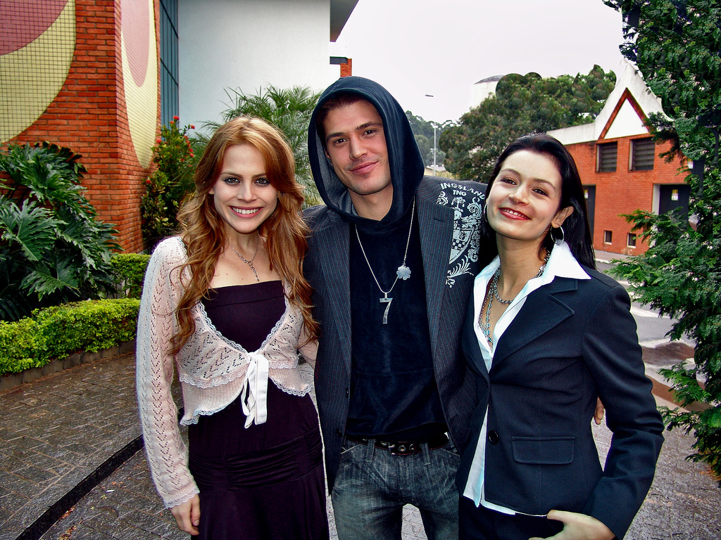 Casto for the Brazilian soap opera Cristal. Marisol Ribeiro (L), Dado Dolabella (C) and Bianca Castanho (R).CRISTAL